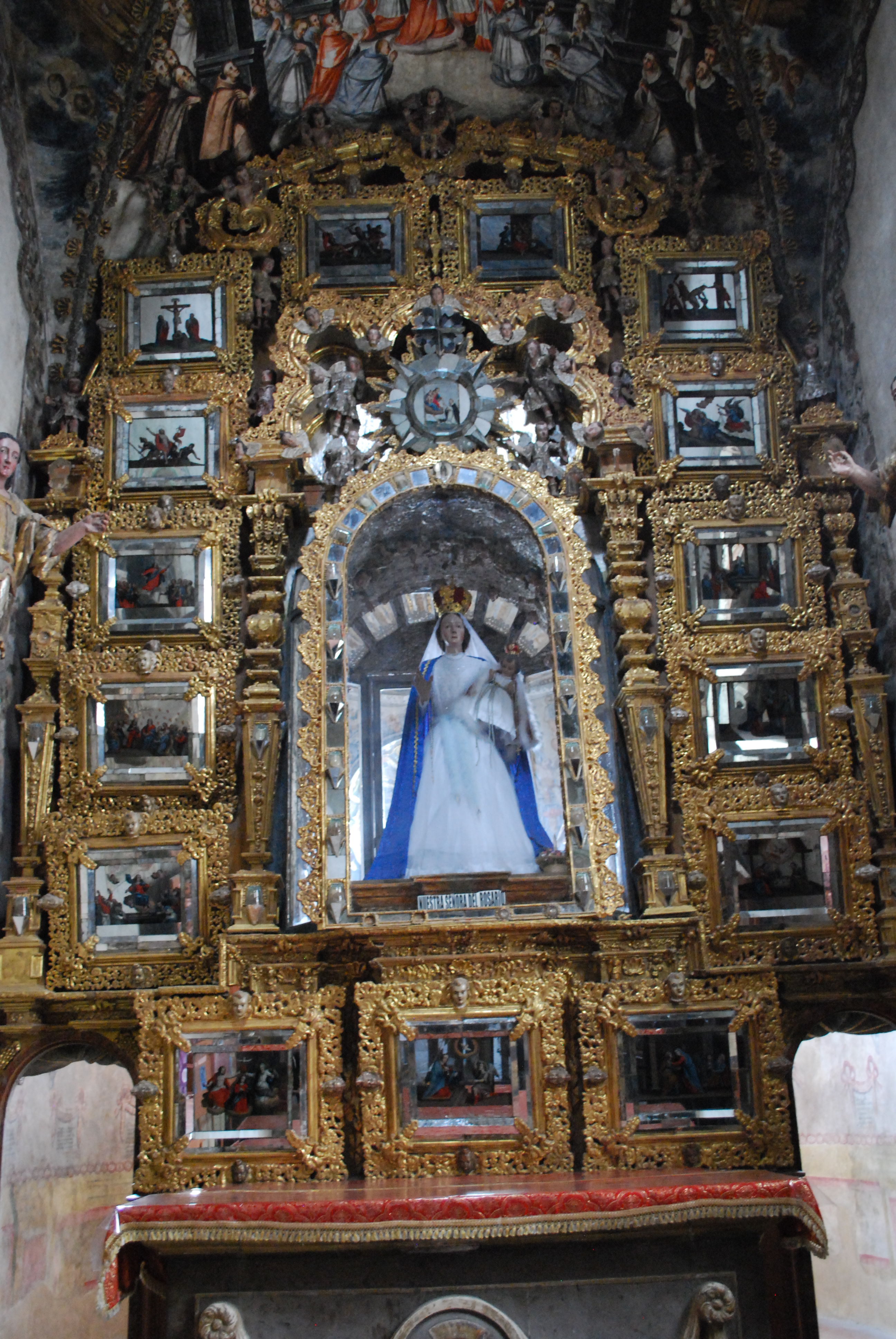 Gold and silver altar to the Virgin Mary in a side chapel at the Sanctuary of Atotonilco, San Miguel de Allende, Guanajuato, Mexico